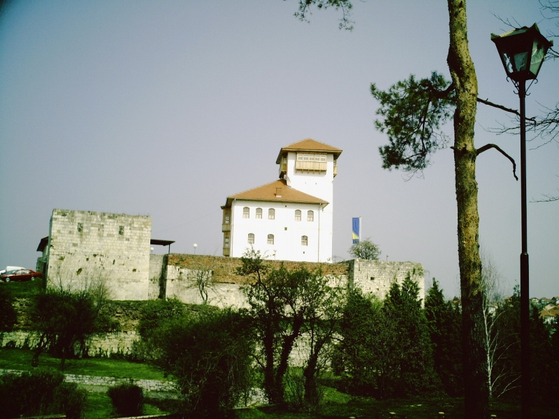 Gradačac Castle, the administrative headquarters of the Gradačac captains.